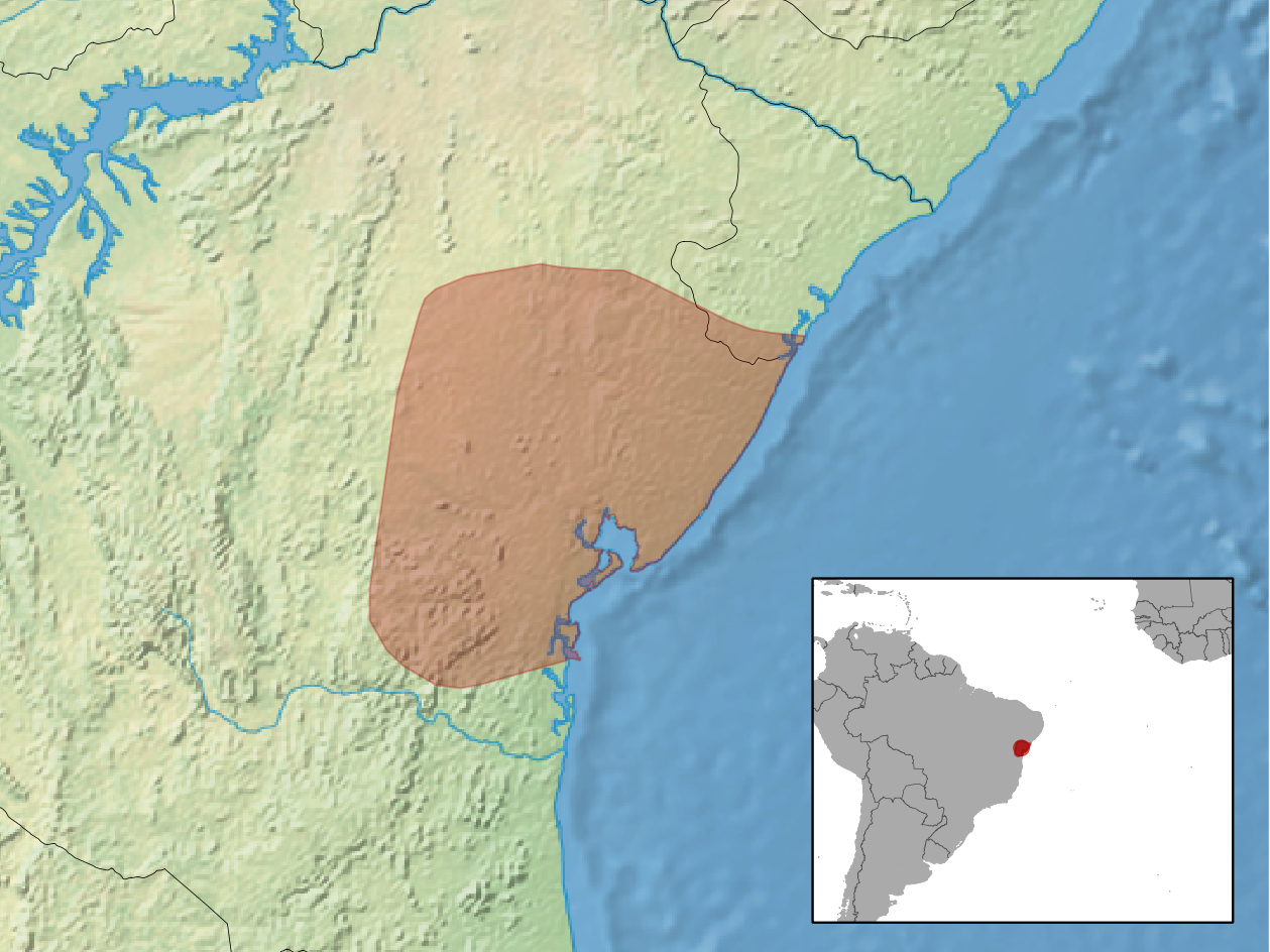 geographic distribution of Trinomys albispinus